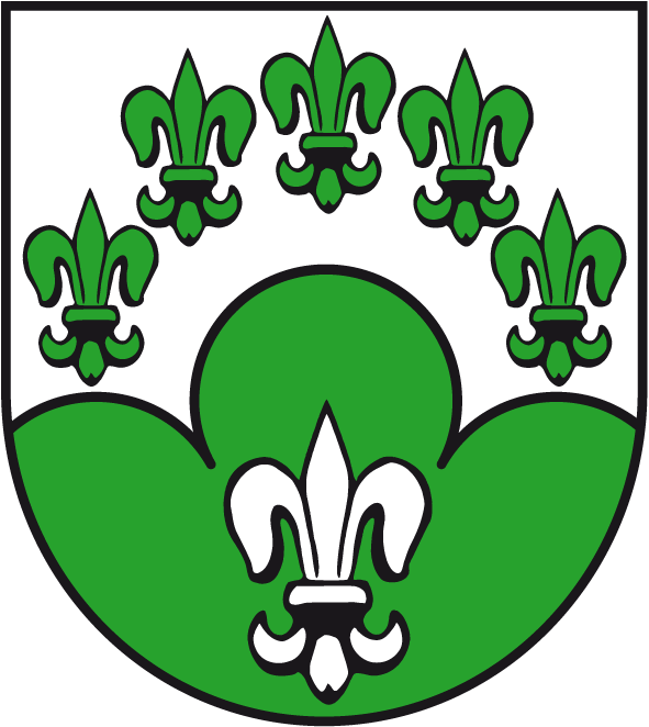 Coat of Arms of VG Brocken